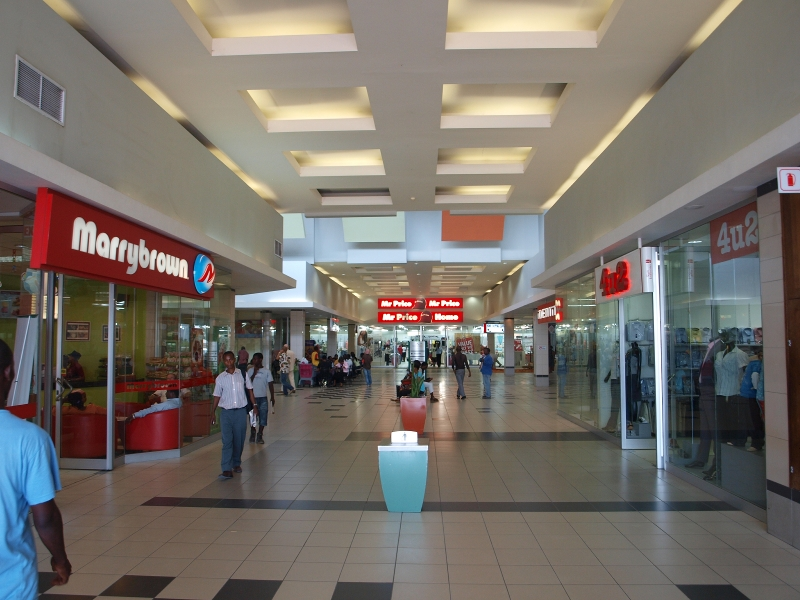 Interior of Mlimani City shopping mall in Dar es Salaam, Tanzania, showing the chains Mr. Price and Marrybrown.